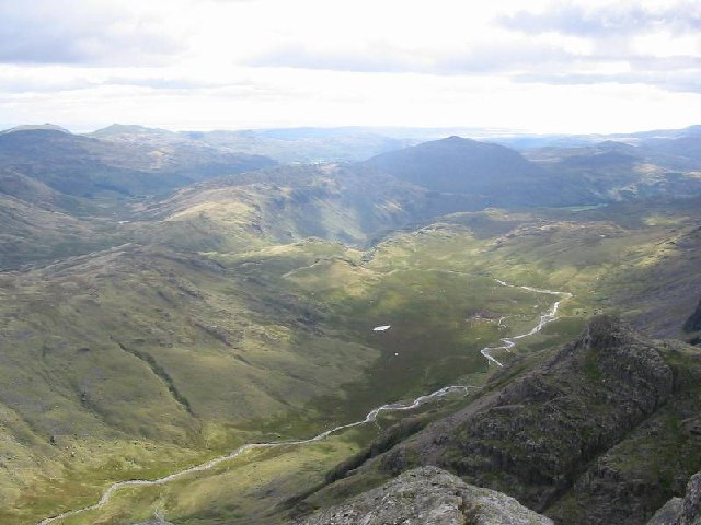 Lake District: The panorama across Eskdale from Ill Crag. Harter Fell and Hard Knott can be seen, also a small tarn.